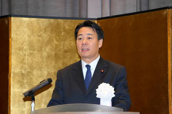 Banri Kaieda, Minister of State for Science and Technology Policy, addressed the commendation ceremony on December 2, 2010.